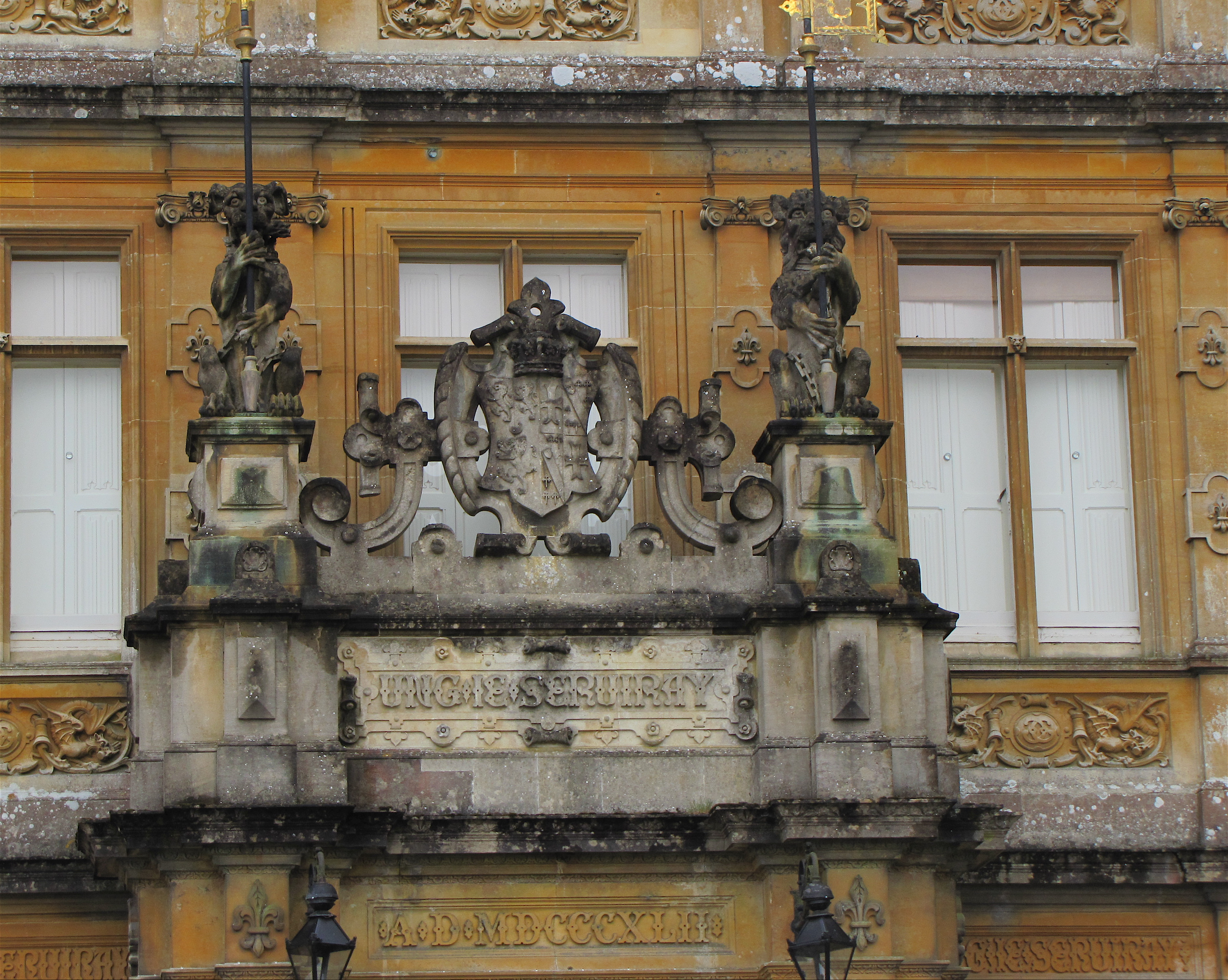 Highclere Castle - Arms of Herbert impaling: Molyneux quartering Howard. Decorative architectural element. IMG_5800